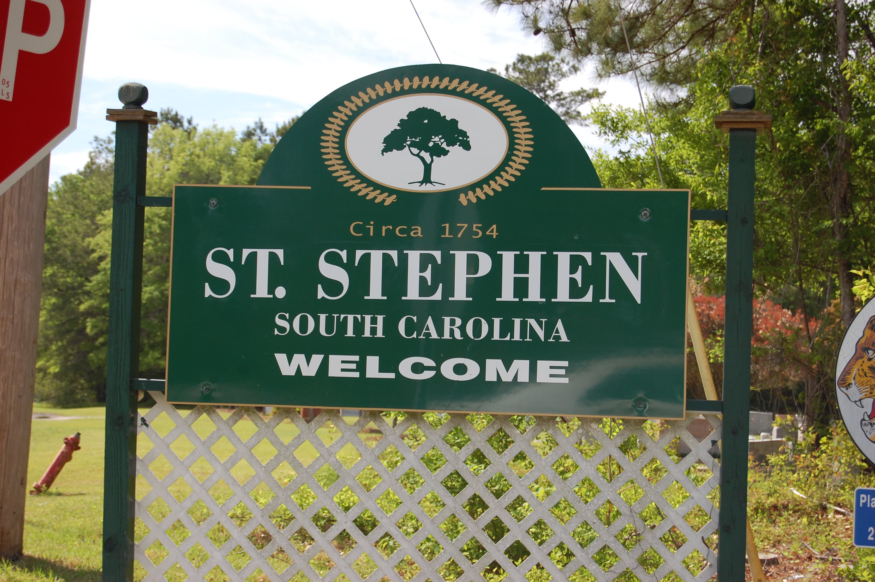 Sign entering St. Stephen, South Carolina